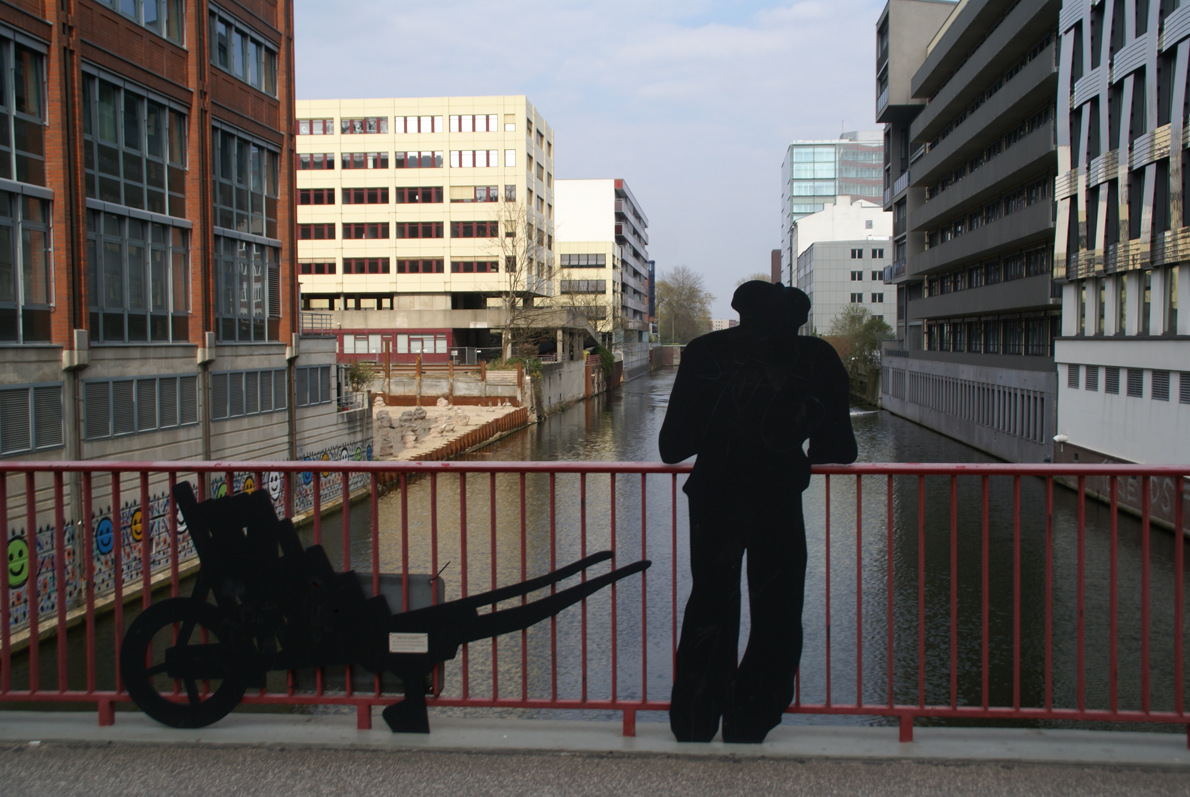 Hamburg (Hammerbrook), Germany: Anja Kleinhans’ sculpture at the Mittelkanal